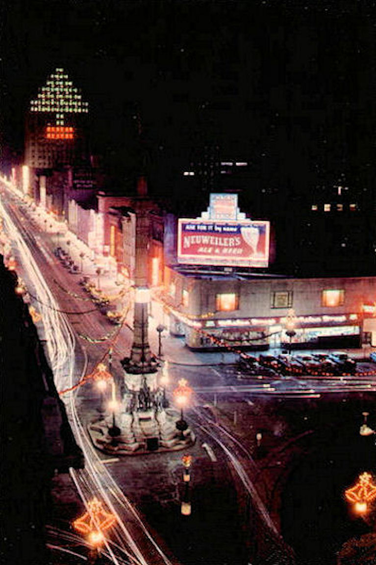 Scan of 35mm slide taken about 1950 of Allentown Center City Central Business District. This time-lapse photo, probably taken from an upper floor of the Kuhn and Shankweiler building on a Thursday night, thows the streetlights and neon of the shopping district during the Christmas season. Note the Christmas tree, formed by various colored lights in the PP&L building. That would become a symbol of the Christmas season in Allentown for decades. Also the ringing bell decoration on top of the city streetlights. These would be placed by the City of Allentown on the lights until 1970, when the entire Hamilton Street area would be renovated into the "Hamilton Mall" concept. The streetcar tracks on Hamilton would be removed in 1953.